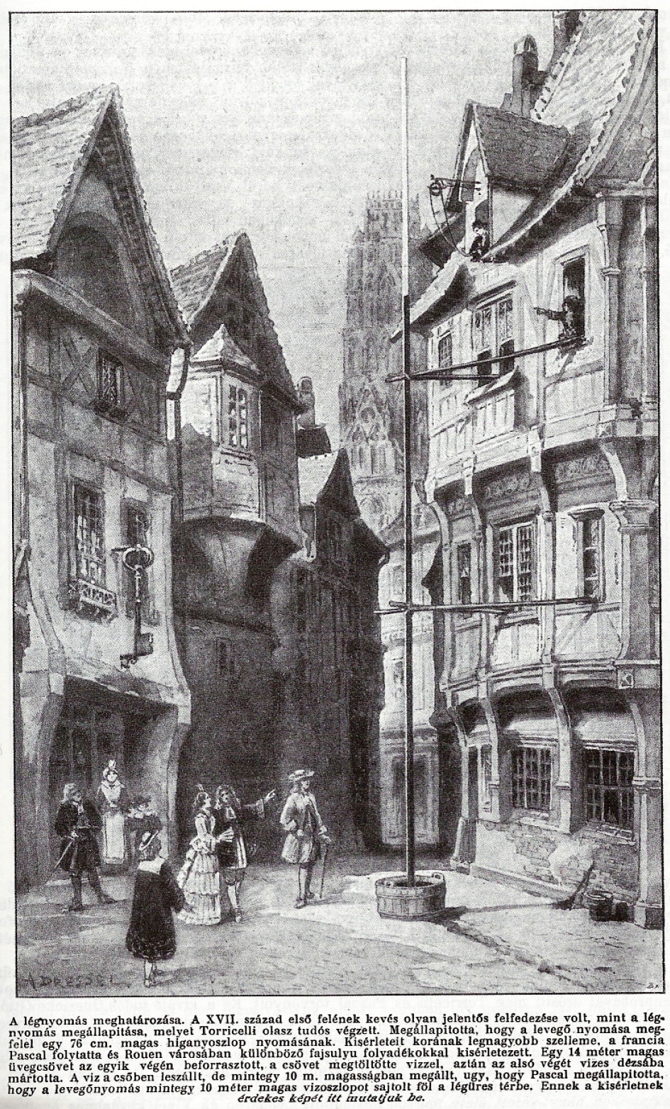 Pascal ´s experiment with barometer in Rouen- book illustration